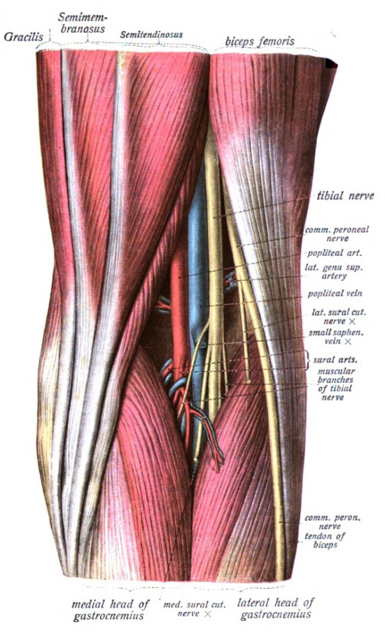 An anatomical illustration from Sobotta's Human Anatomy 1908